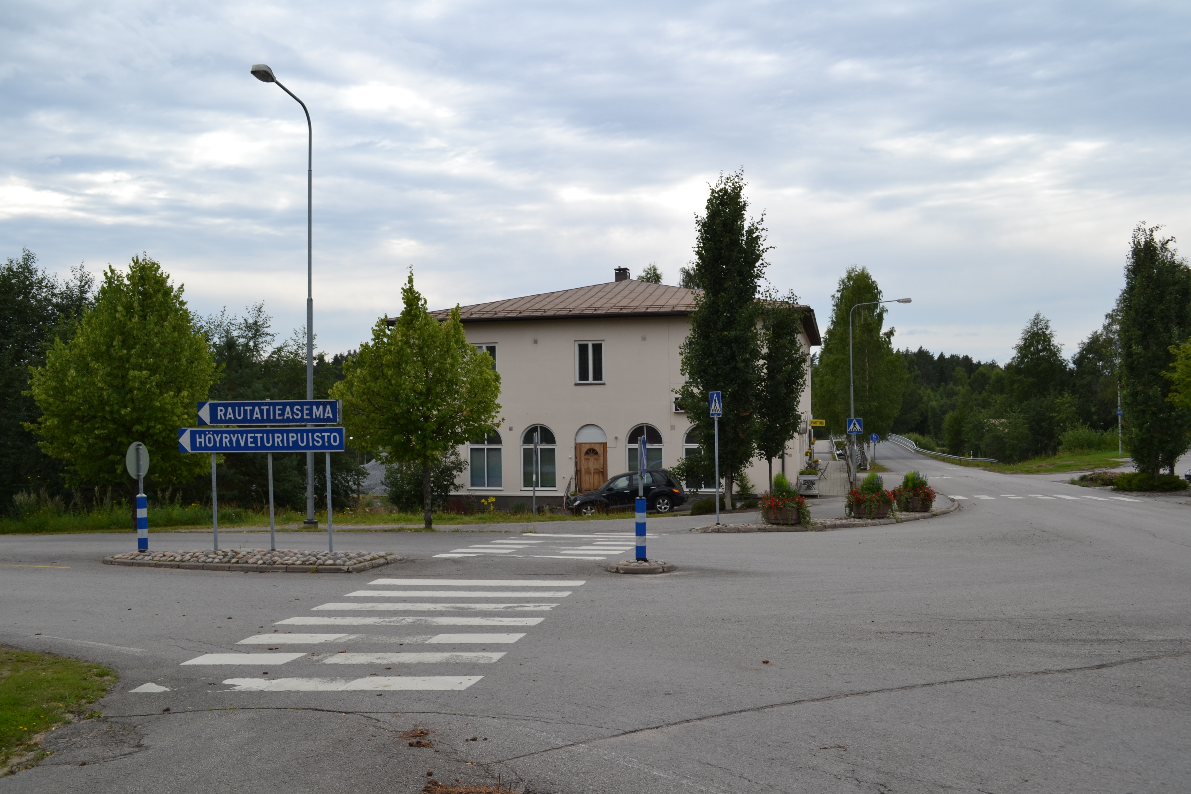 Intersection of Pihlajavedentie road (connecting road 3481) and Asematie road (connecting road 6041) in Haapamäki, Keuruu, Finland.